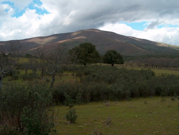 Dehesa boyal de Hernán-Pérez y vista de la Sierra del Moro.